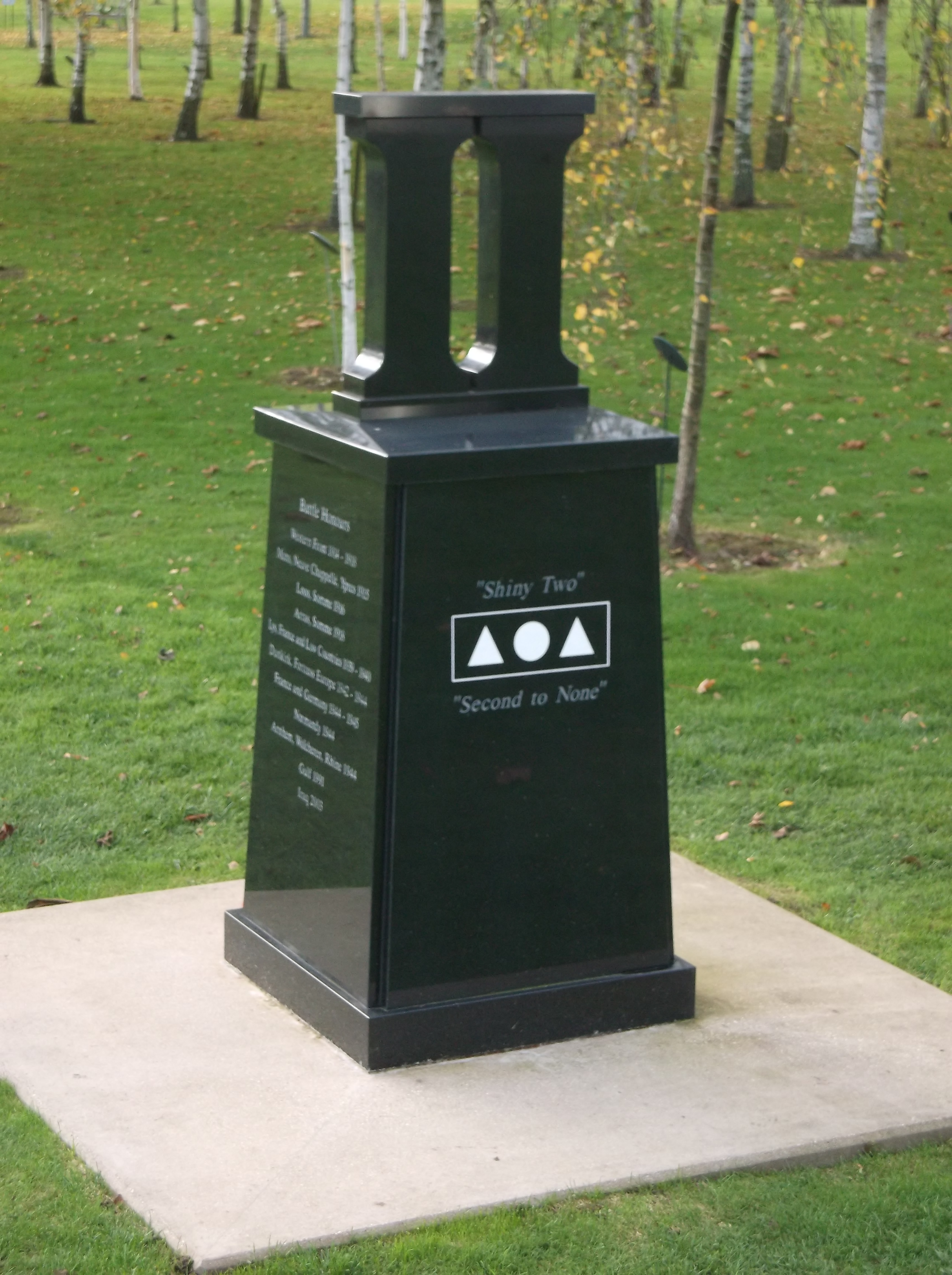 No 2 Squadron, Royal Air Force memorial, National Memorial Arboretum